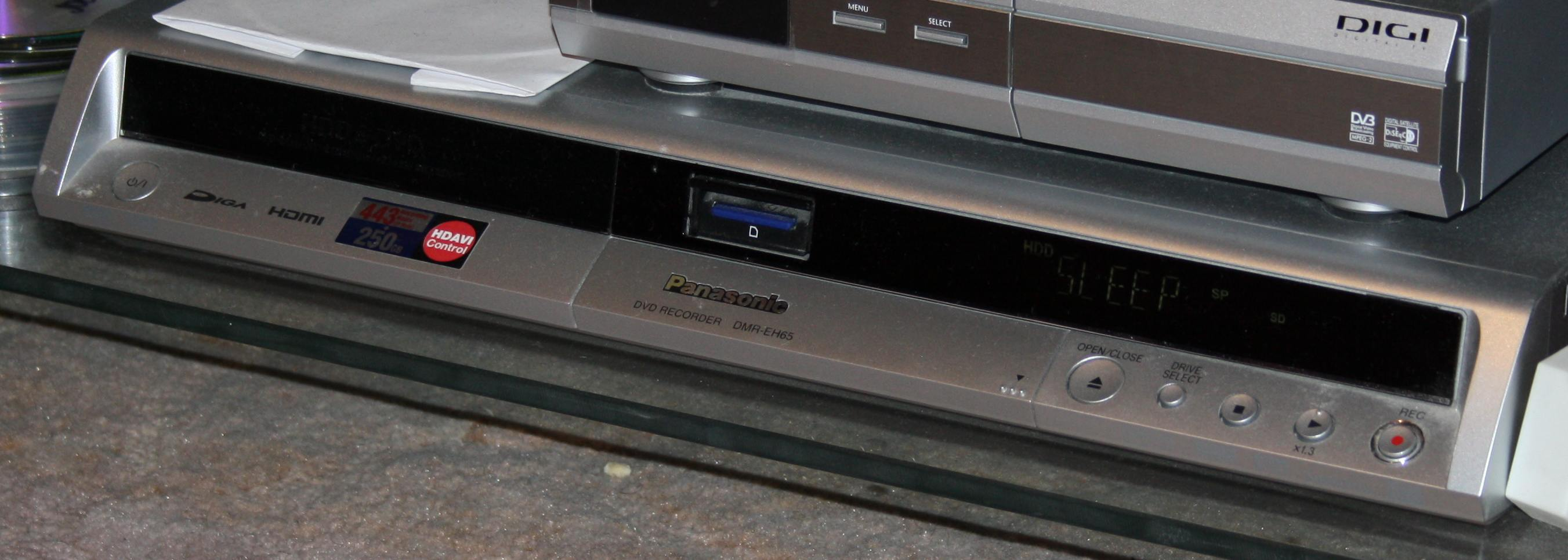 Panasonic DVD recorder DMR-EH65 with internal hard disk drive